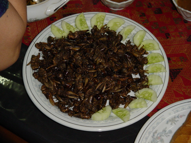 Fried insects in Laos (2003)